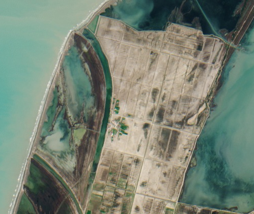 This image of the Karavasta Lagoon in Albania is a subset from the first acquisition by Sentinel-2B on 15 March 2017 - extract of the original image with the villages of the former Remas Community on the southern End of the lagoon: Gur and Babujnë at the foot of the hills, Mucias, Remas and Karavasta in the green fields to the West, Adriatik in the sandy part between the lagoon and the sea.